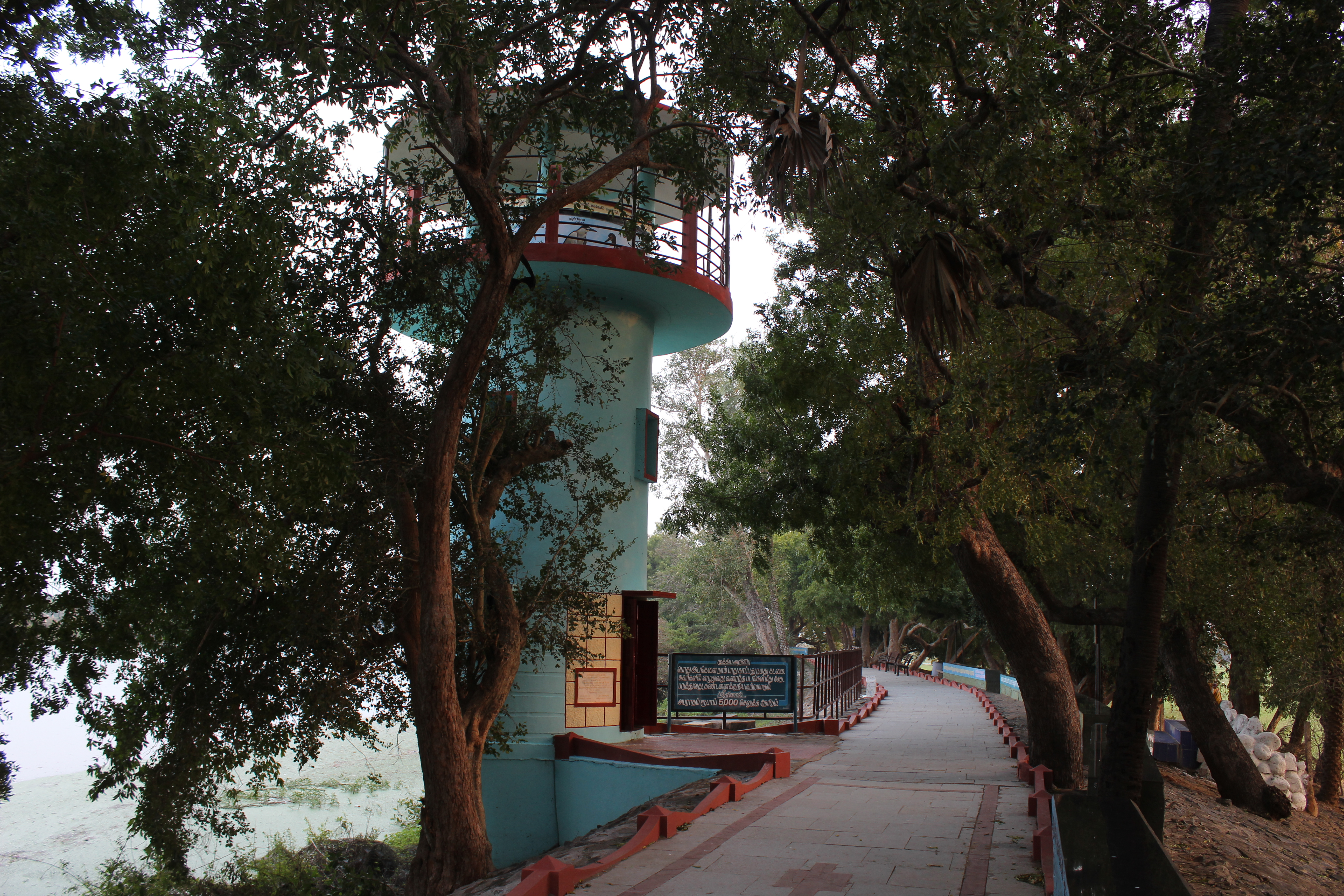 Vedanthangal bird sanctuary Watch Tower.